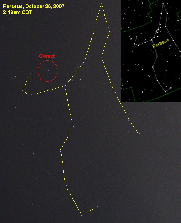 Comet Holmes photographed on Oct 25,2007, 7:19 UT from Minneapolis, Minnesota.